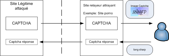 relay attack Captcha